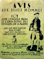 Recruiting advertissement for the Naval fusilliers, Louis XV.